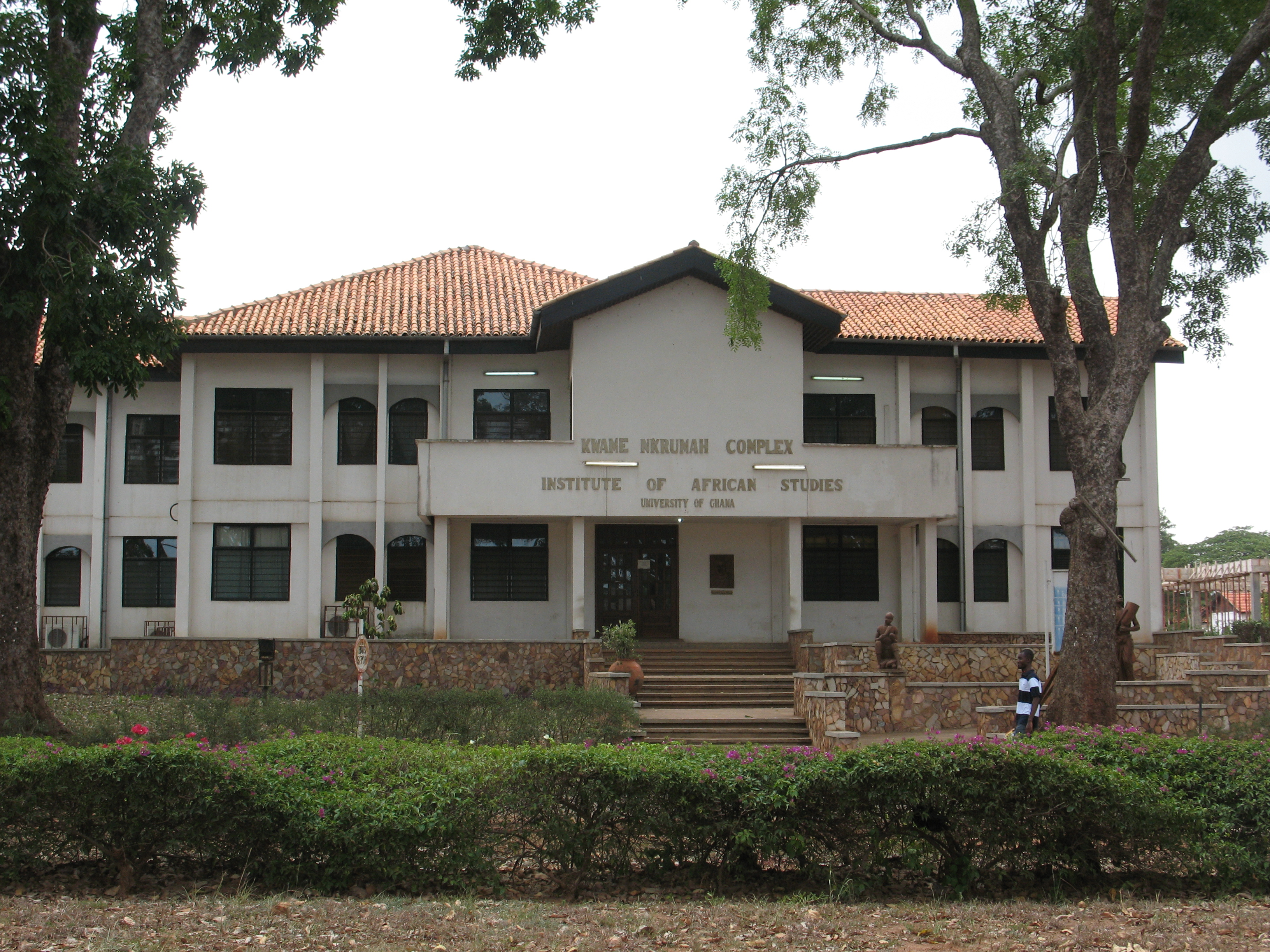 The Institute of African Studies building in Legon Campus, University of Ghana, Accra, Ghana.